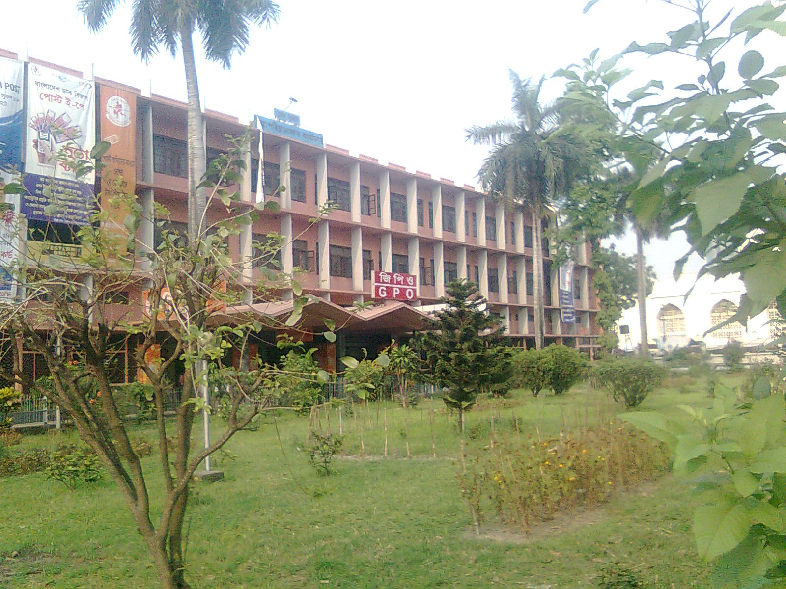 This is the image of Dhaka GPO(General Post Office). Its situated at Paltan,Dhaka.